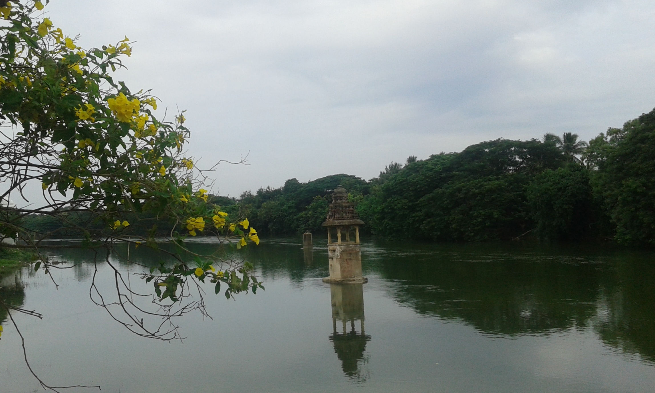 Kumbakonam